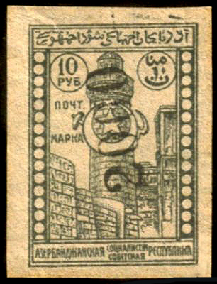 Stamp of Azerbaijan SSR with overprint, 2000/10 rub.